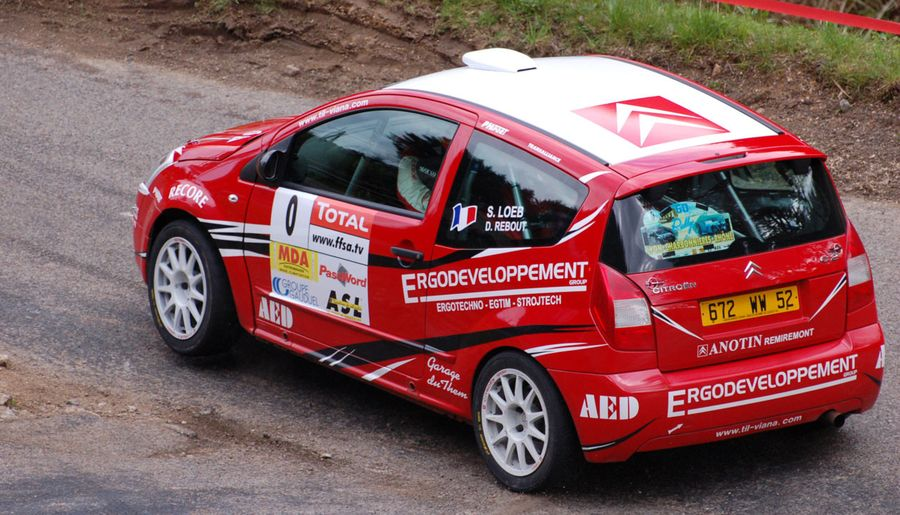 Sébastien Loeb and Dominique Rebout on a Citroën C2 R2 Max in the 2007 Ronde du Jura rally.